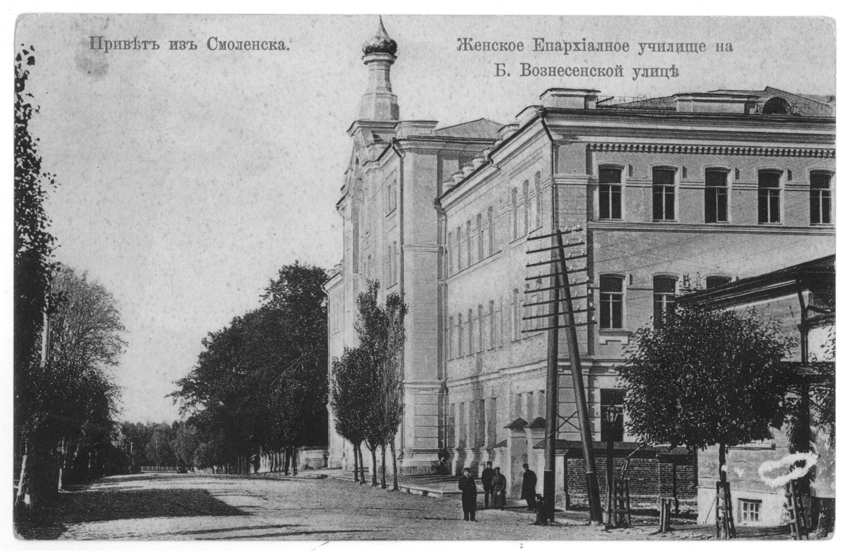 Building Women's Diocesan College (now - the main building of the Smolensk State University) on Bolshaya Ascension (now - Przewalski's street).